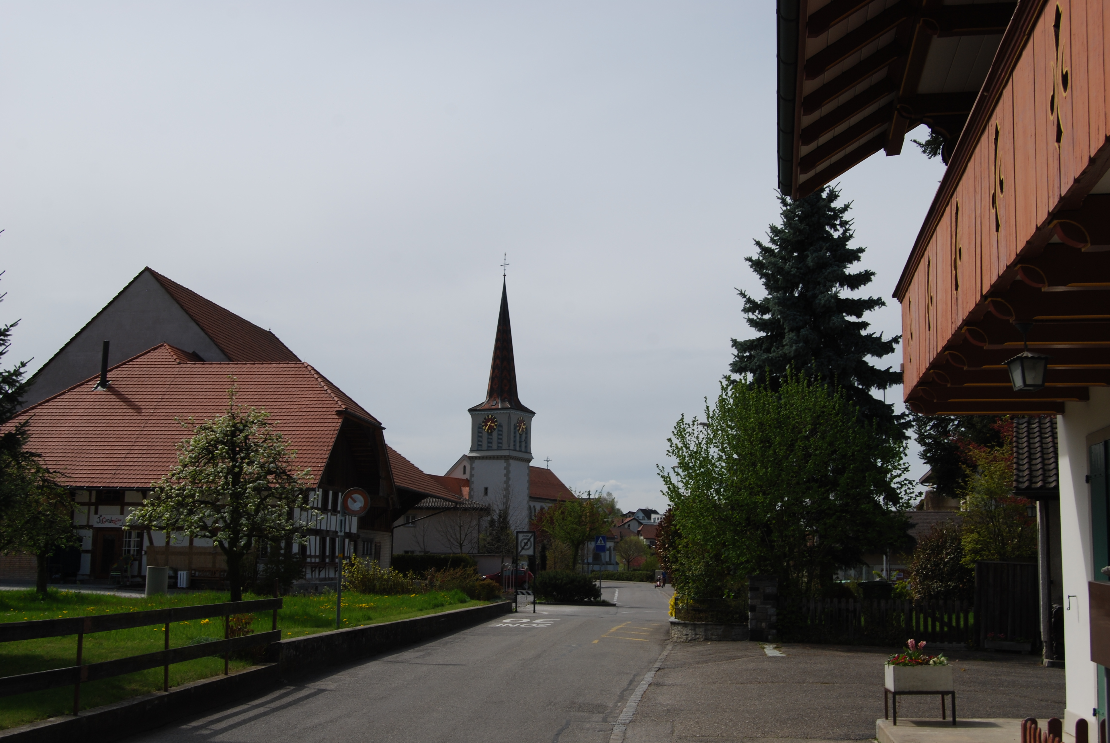 Gurmels, canton of Fribourg, SwitzerlandEsperanto: Gurmels, Kantono Friburgo, Svislando